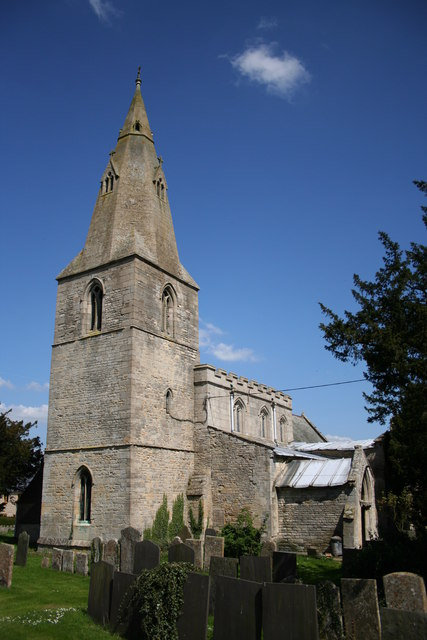 St.James' church, Skillington, Lincs. Mostly Early English and Decorated with a handsome tower and broach spire. Inside is a memorial window to former vicar Rev.Charles Hudson who was killed whilst climbing the Matterhorn in 1865